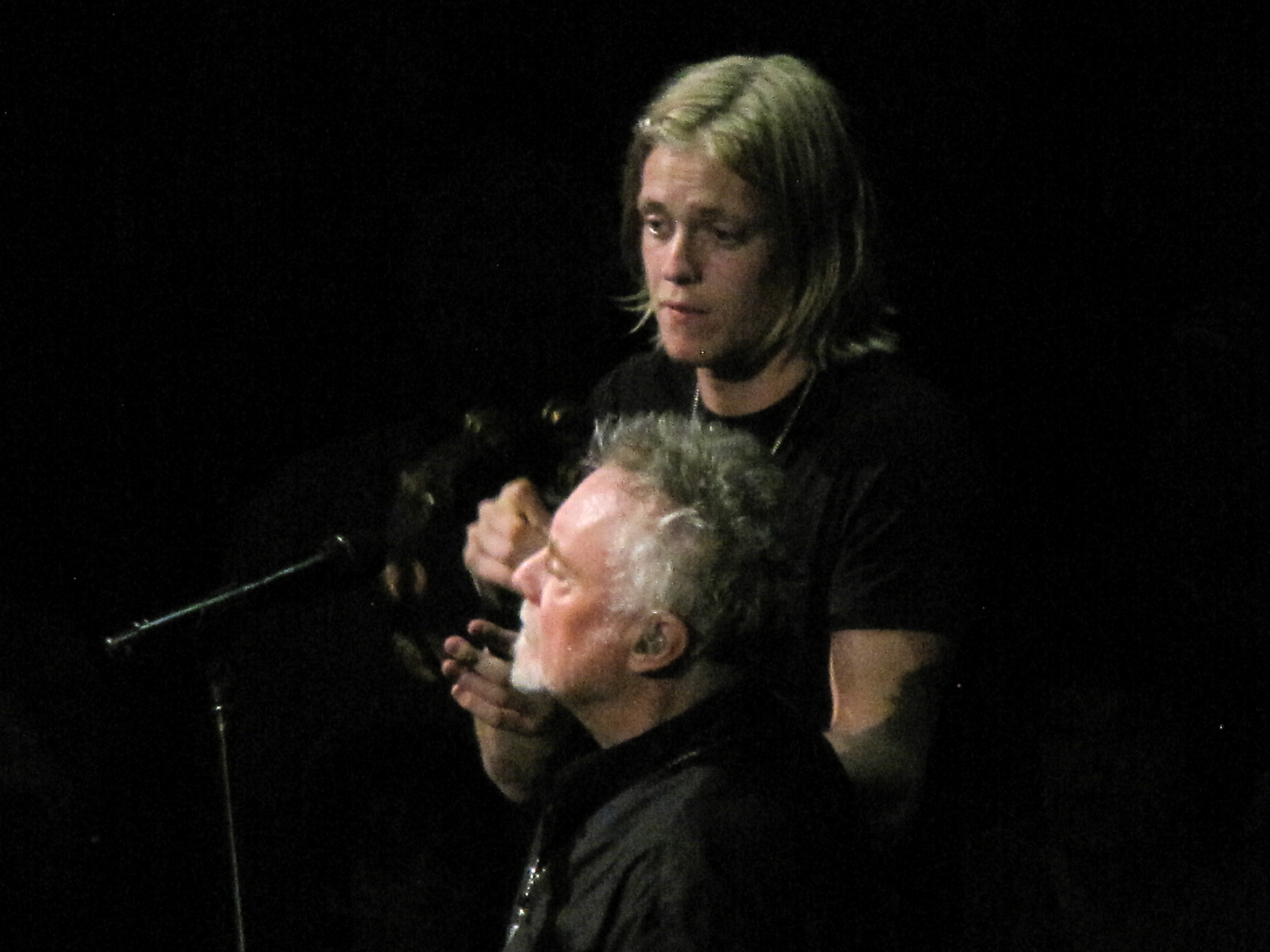 Rufus Tiger Taylor and his father Roger Meddows-Taylor performing with Queen + Adam Lambert in 2014